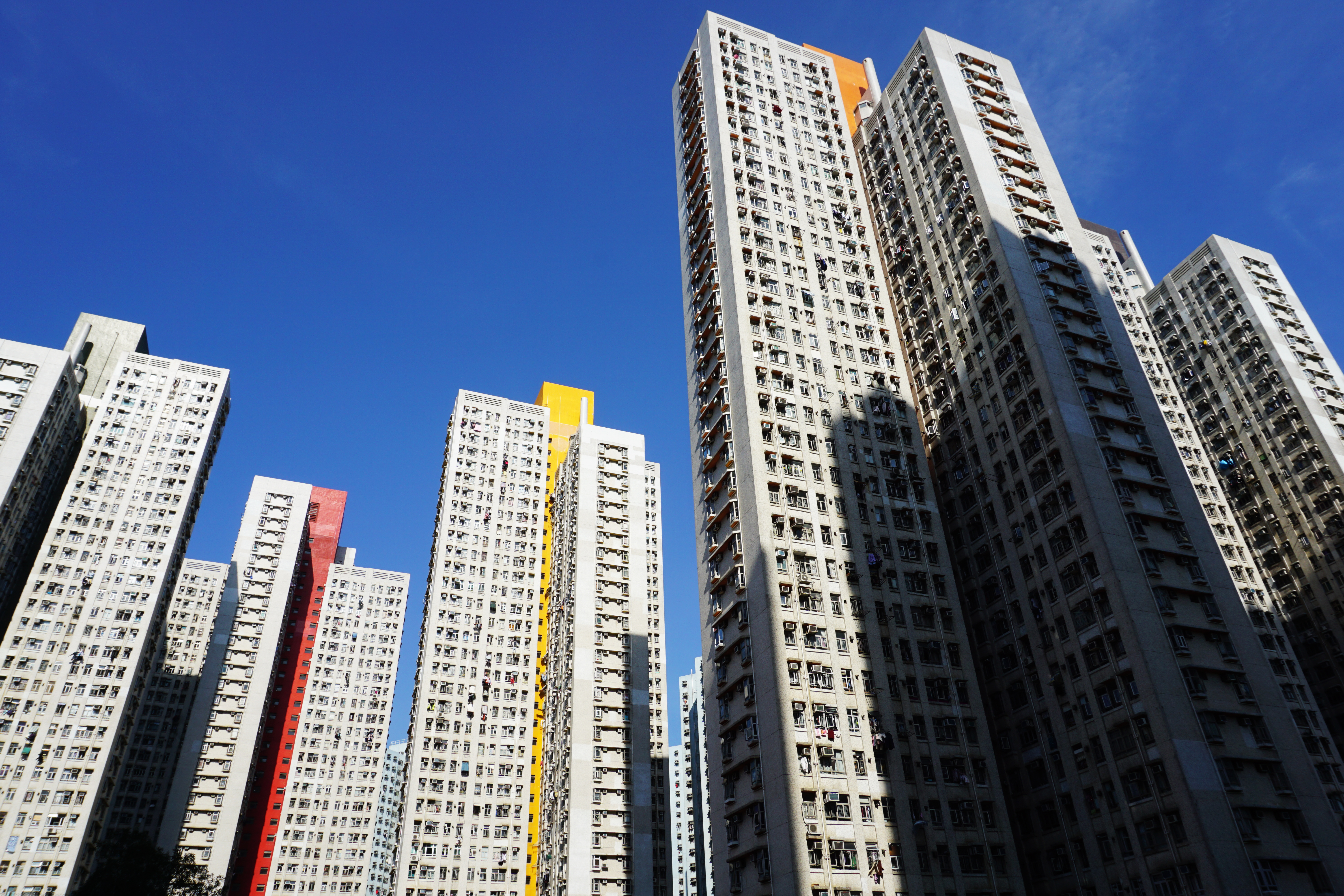 Siu Hei Court in Tuen Mun, Hong Kong.